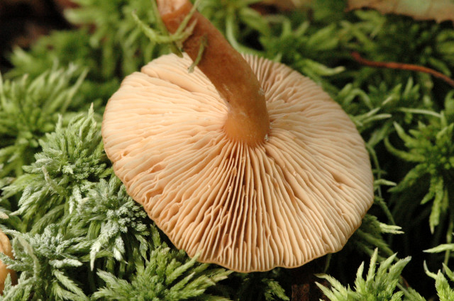 Lactarius spec. from Commanster, Belgium. The determination of the species shown in this picture has been verified.